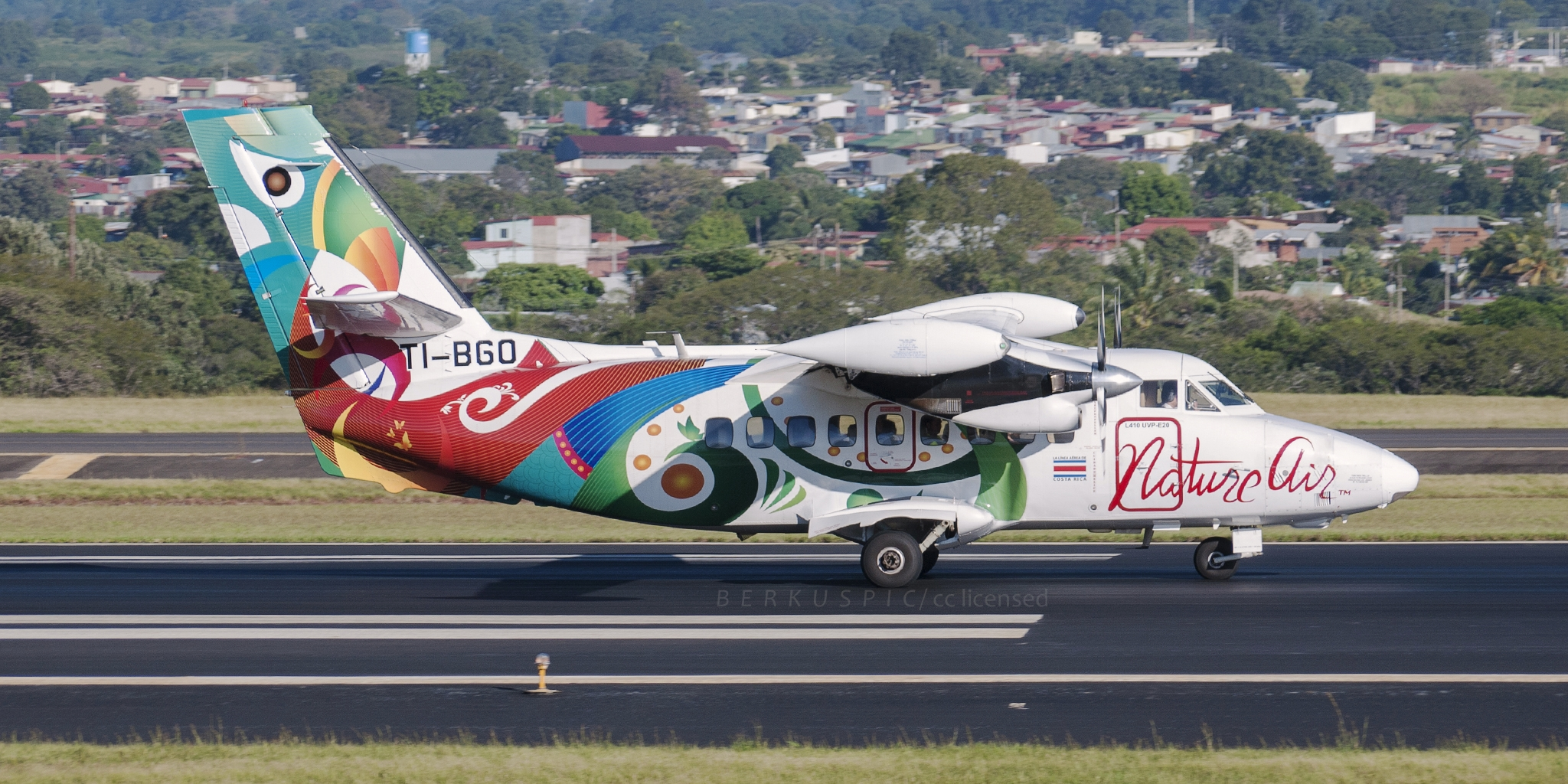 Nature Air Let L-410 at SJO